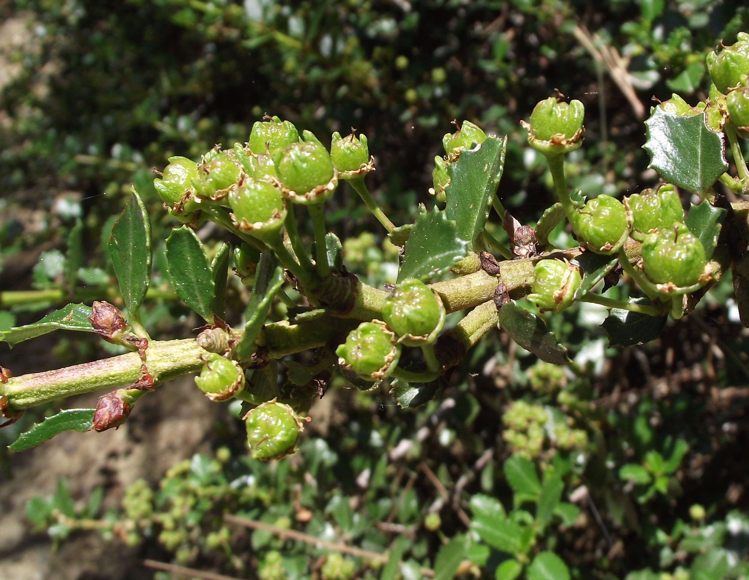 Ceanothus masonii in the UC Botanical Garden, Berkeley, California, USA. Identified by sign.